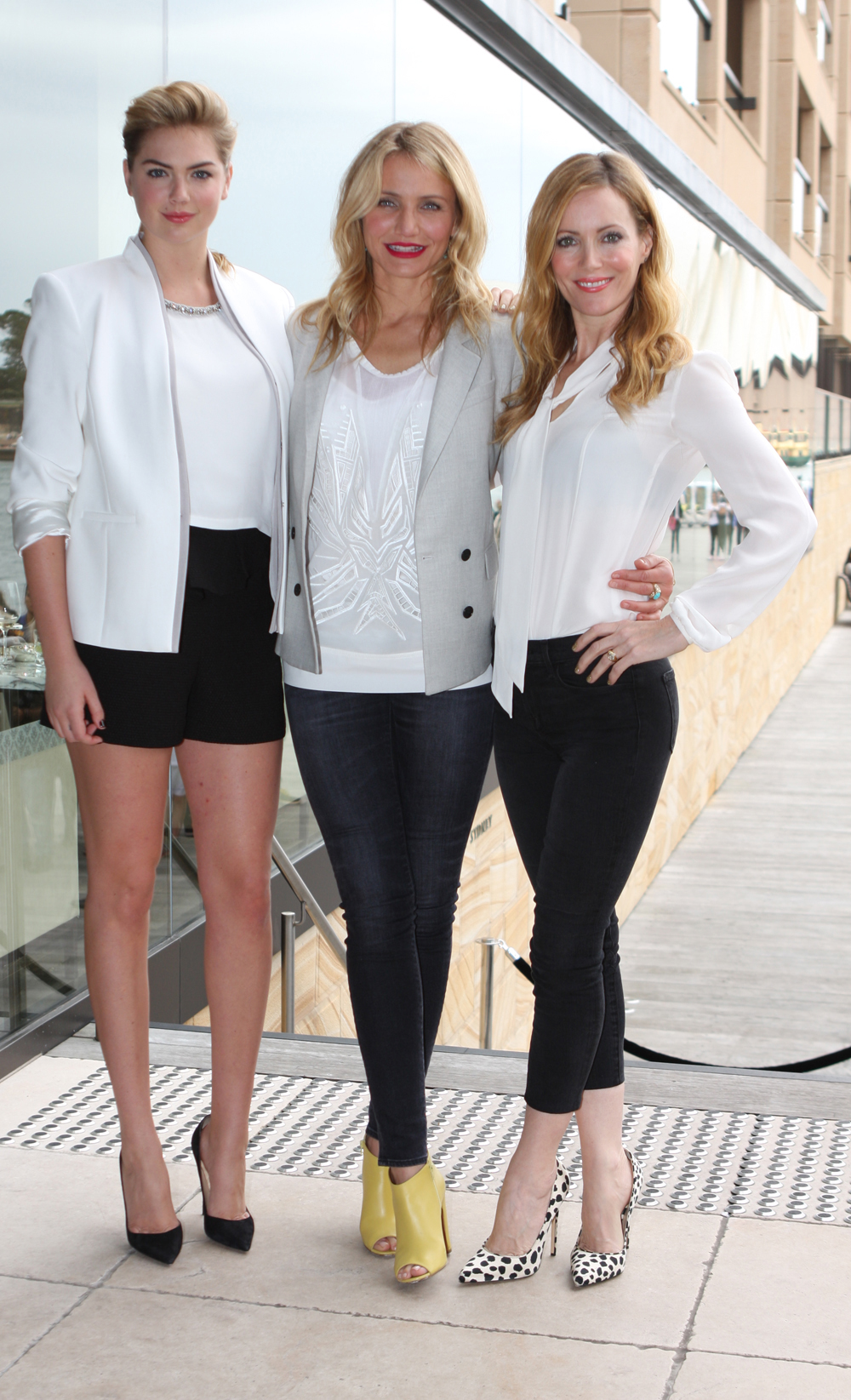 the Other Woman, L-R: Kate Upton, Cameron Diaz, Leslie Mann.